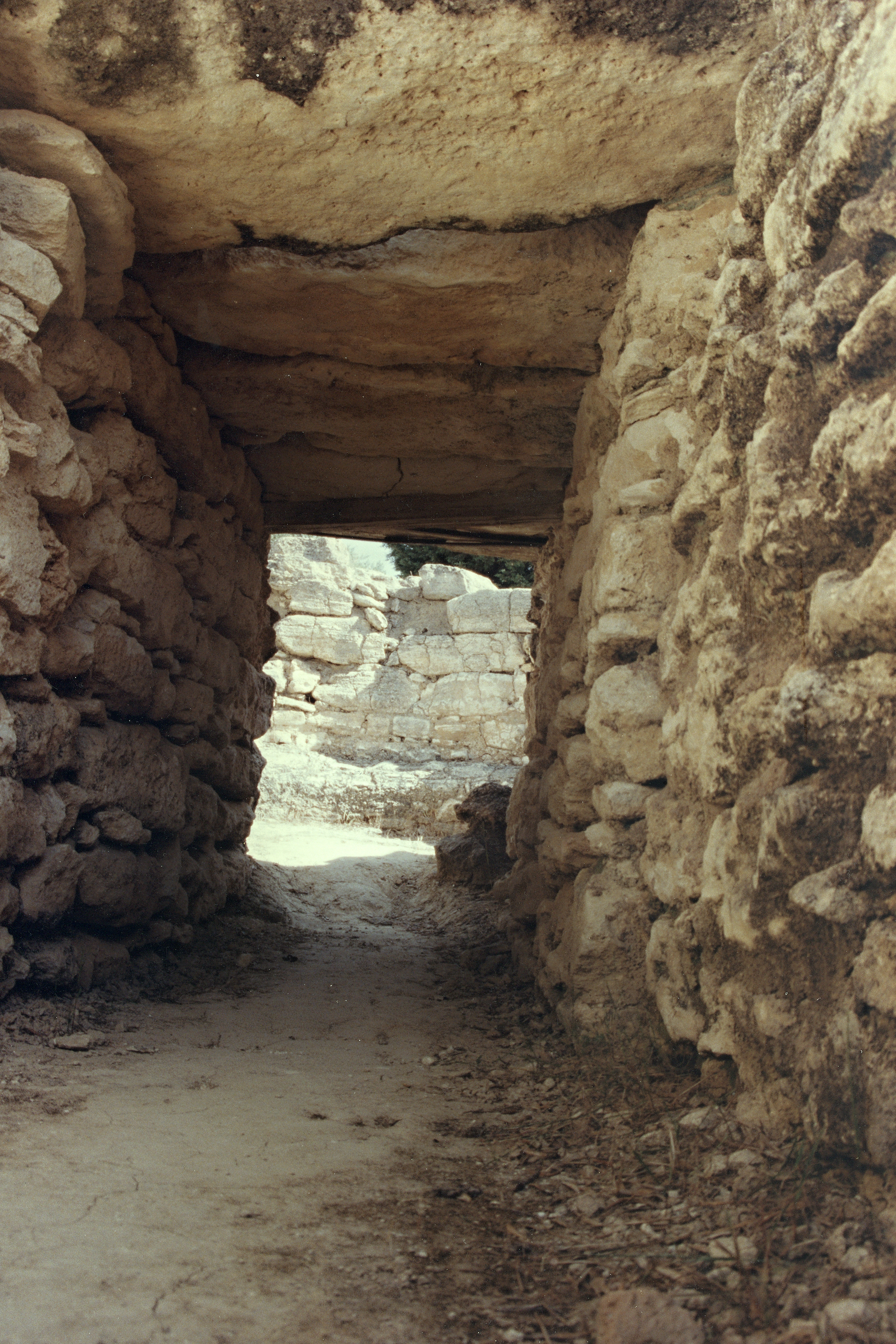 Minoan cemetery of Phourni near Archanes. The arrival of the ruined tholos. Bronze Age.